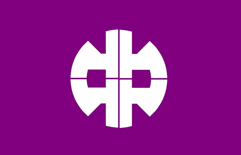 Flag of Nakanojo Gunma